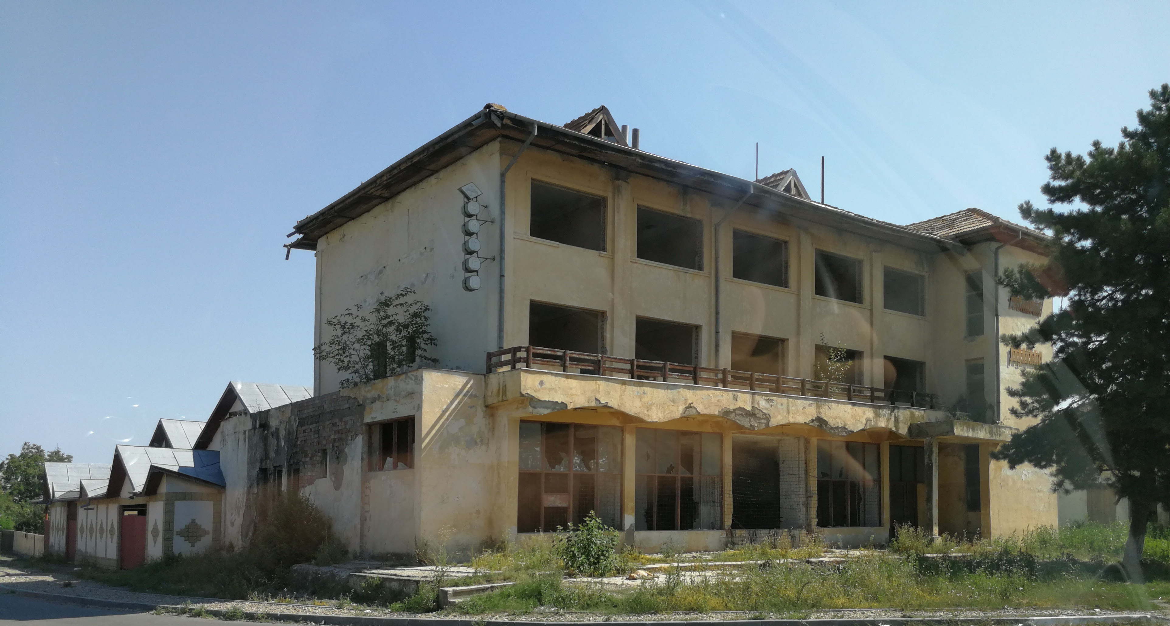 Deserted commercial building, Pogoanele, Buzău County, Romania